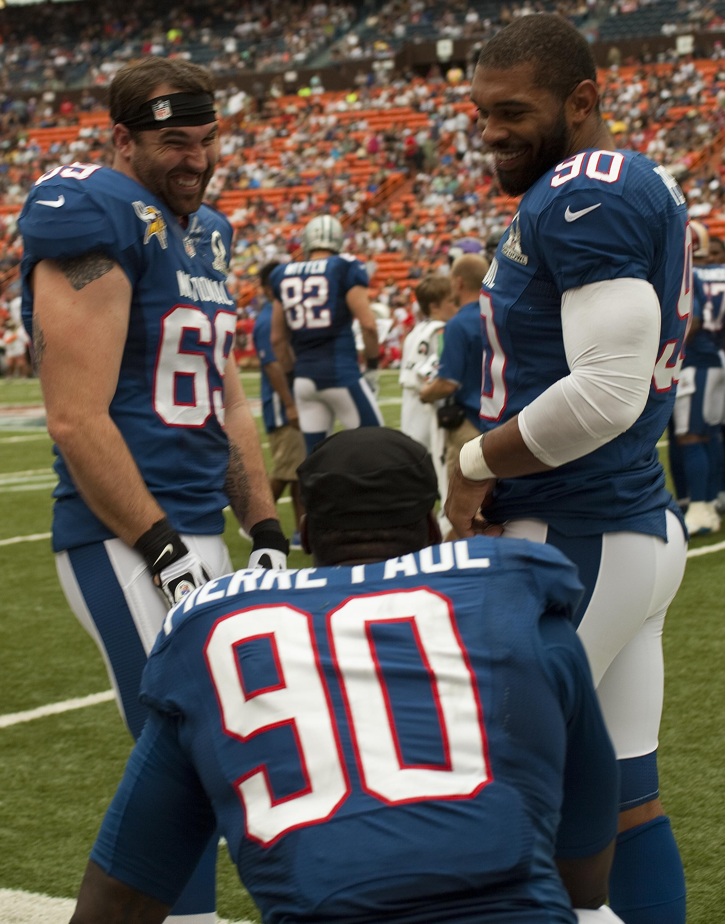 Minnesota Vikings defensive end Jared Allen (left), Chicago Bears DE Julius Peppers (right) and New York Giants DE Jason Pierre Paul joke about the previous defensive series during the 2013 NFL Pro Bowl at Aloha Stadium, Jan. 27.